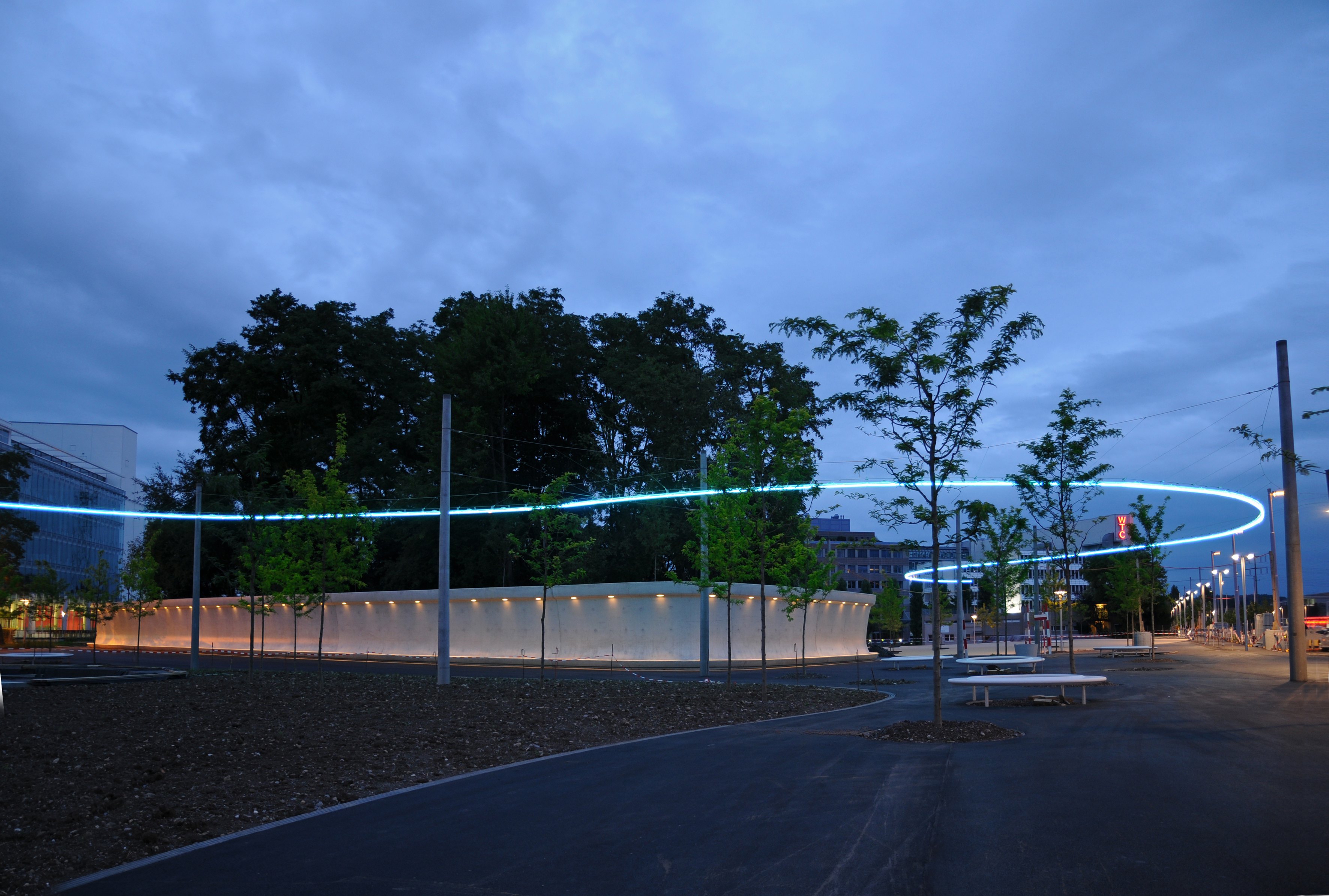 The blue shining "Leutschenlicht", created by artist-architect Christopher T. Hunziker, meandering around the hill of the former shooting range.